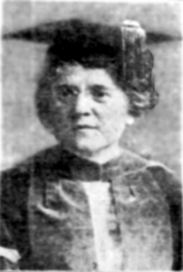 Winifred Josephine Robinson (1867–1962) was an American botanist, educator, and educational administrator. As a botanist, Robinson studied ferns and wrote several papers and books. Robinson was the first dean of the Women's College of Delaware.